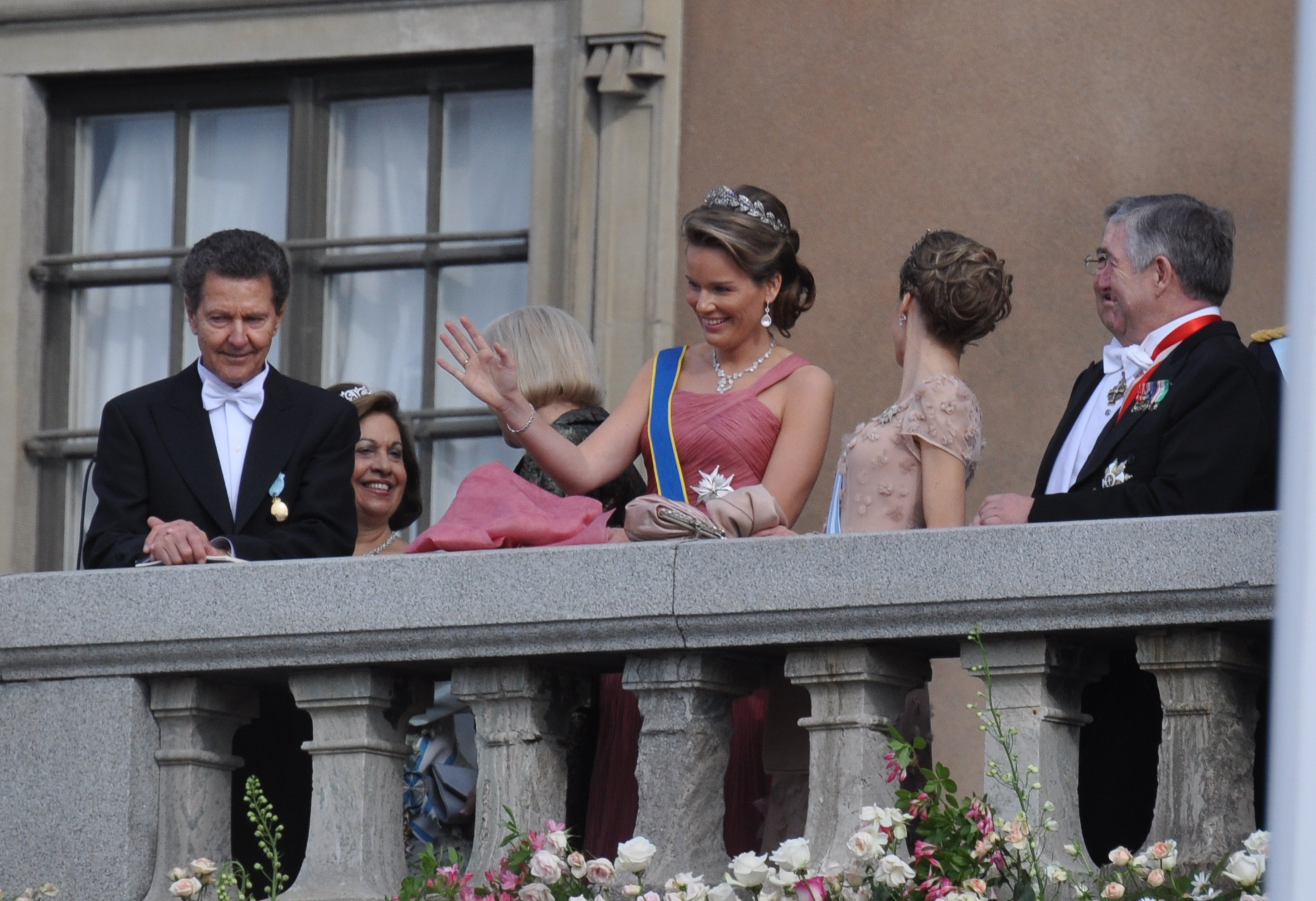 Wedding of Victoria, Crown Princess of Sweden, and Daniel Westling. The Couple at Lejonbacken, guests at the terrace.